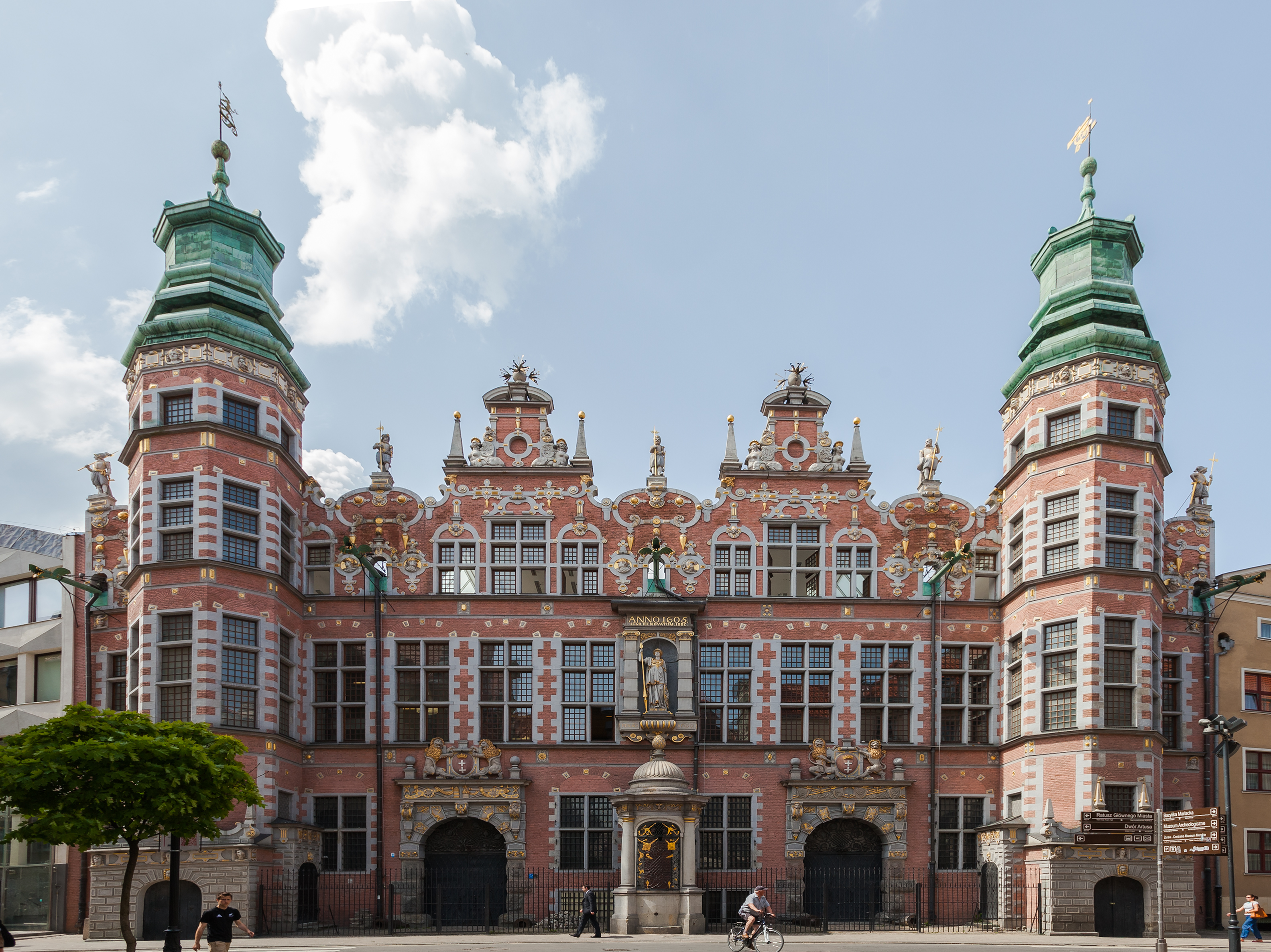 Great Armoury, Gdansk, Poland